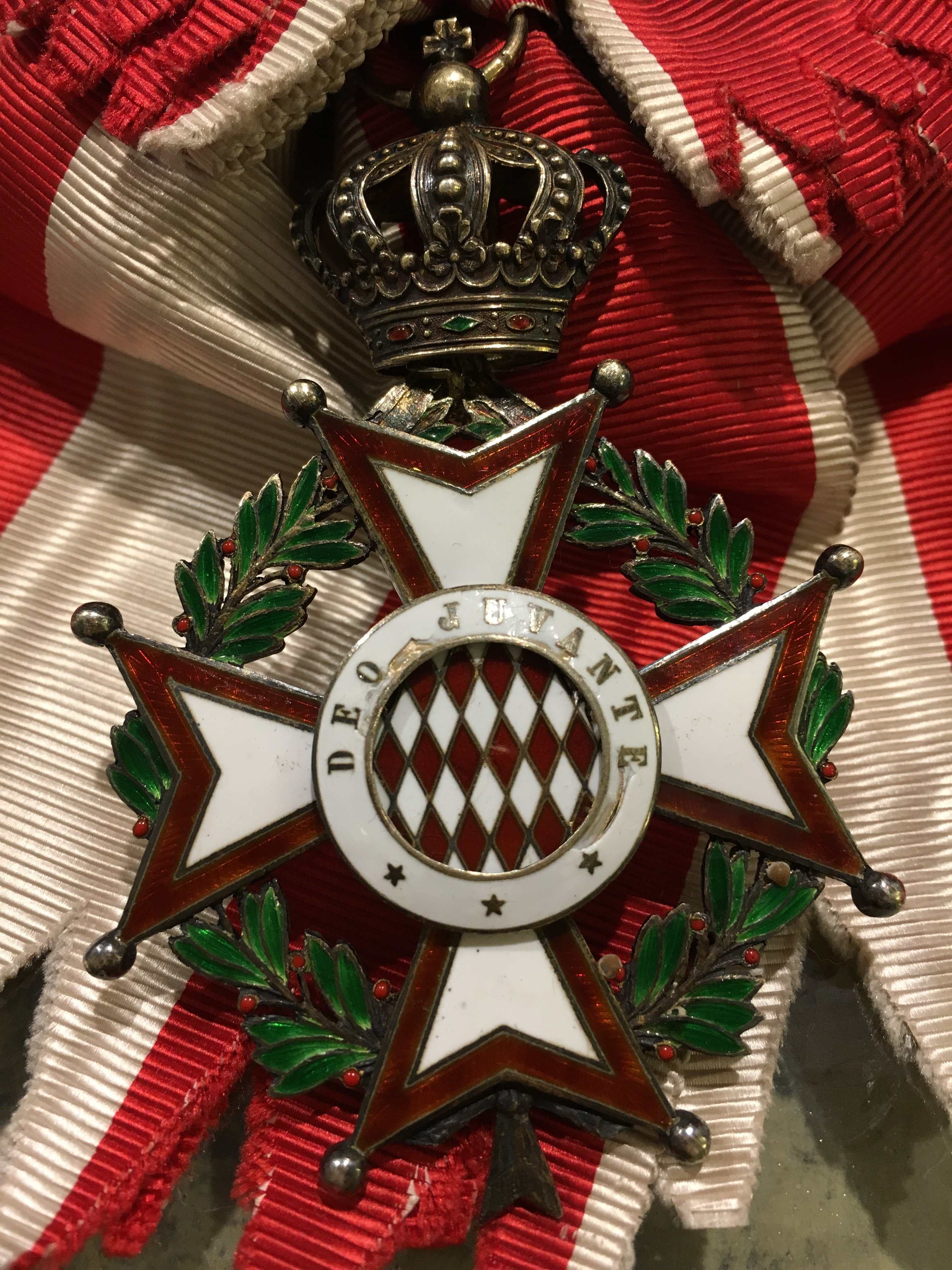 Reverse of a Grand Cross sash and sash badge of the Order of Saint-Charles, Principality of Monaco. Private collection.